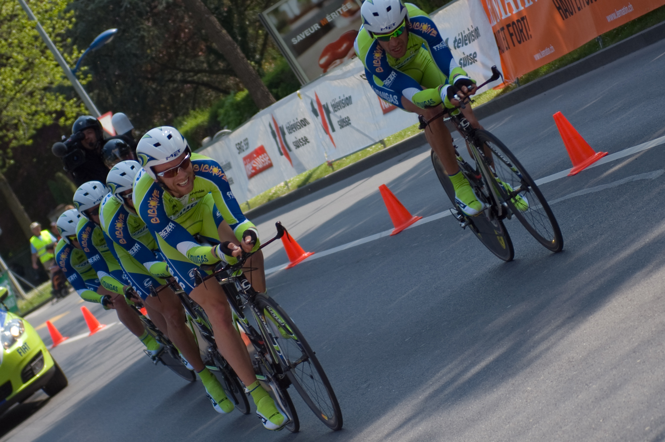 Tour de Romandie 2009 - 3rd stage - team time trial